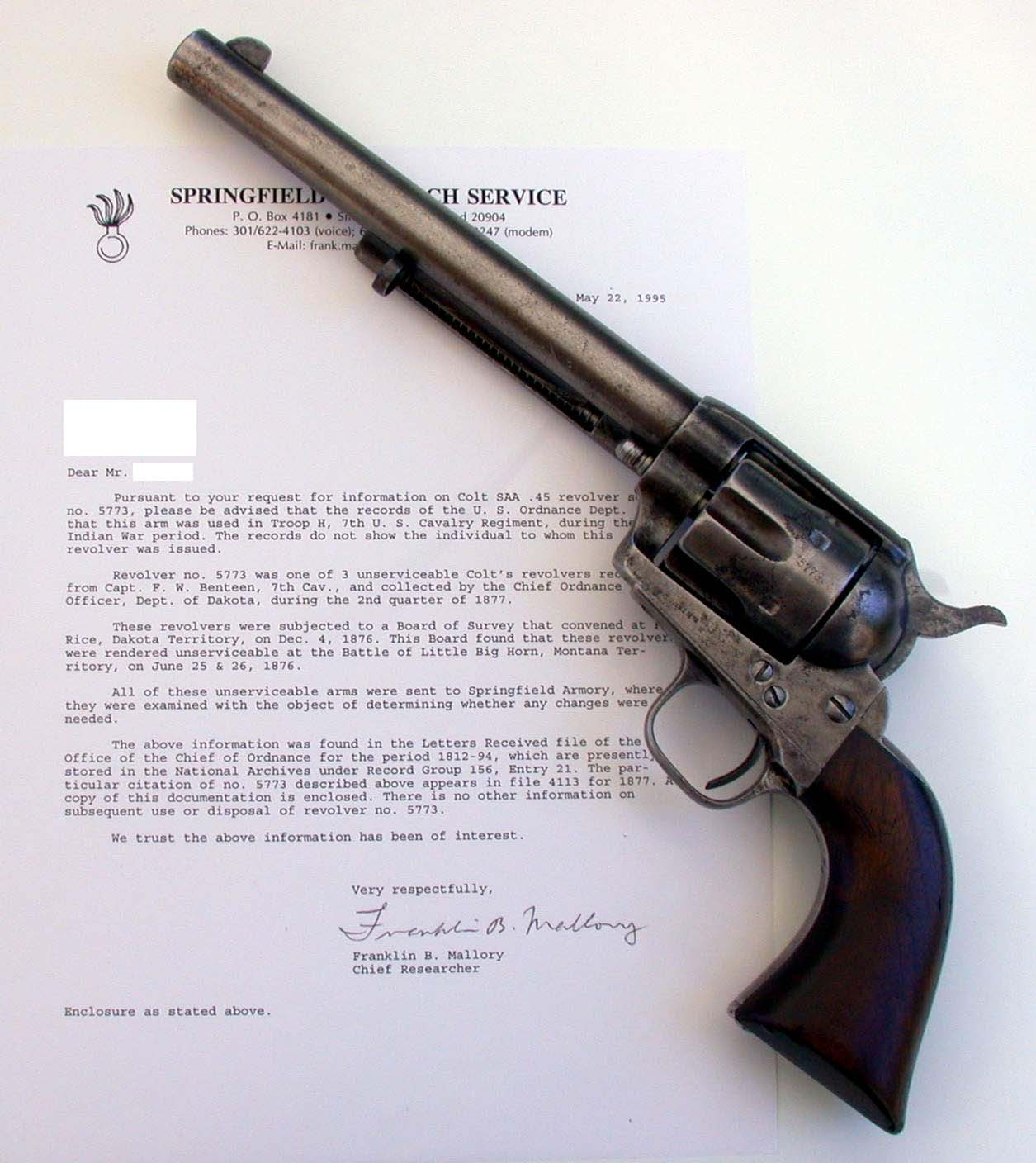 Colt Single Action Army Mod 1873. This revolver was issued to the US Cavalry early in 1874. Hmaag --Hmaag (talk) 16:39, 28 November 2008 (UTC) Own work